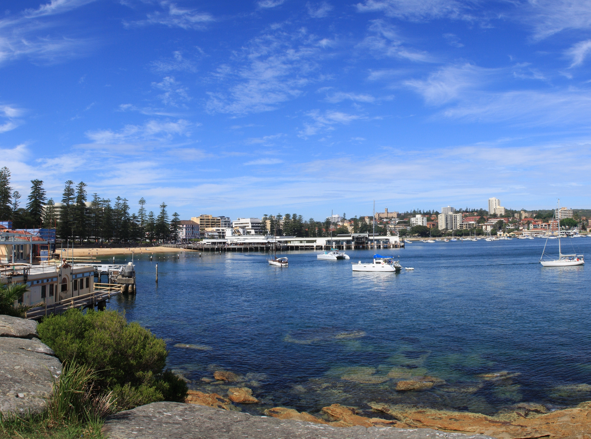 Manly, New South Wales